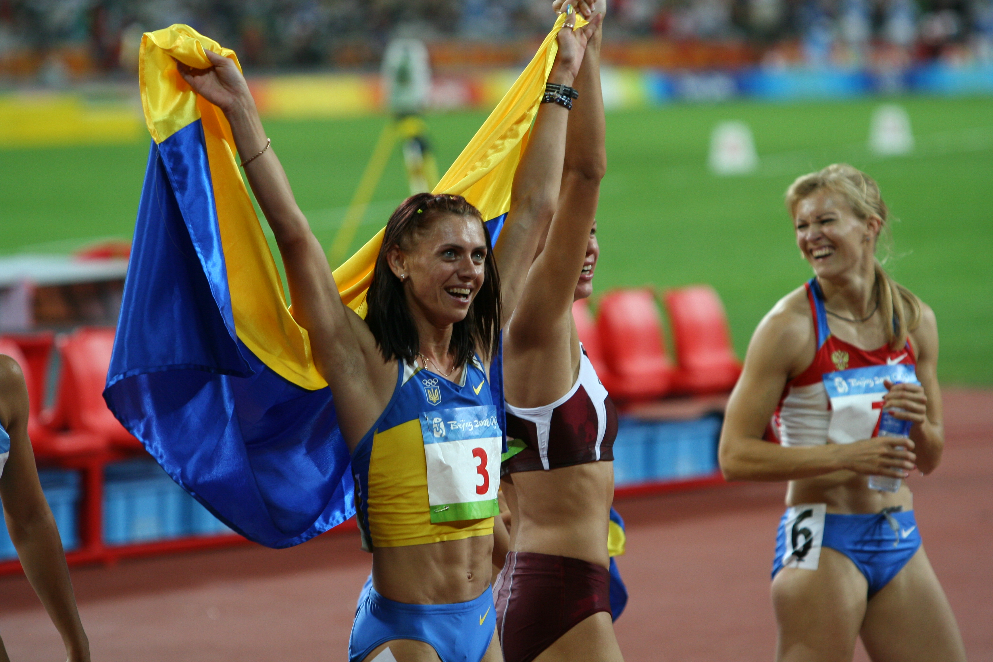 Lyudmila Blonska won silver in the Beijing Olympics women's heptathlon, but was disqualified after testing positive for methyltestosterone.